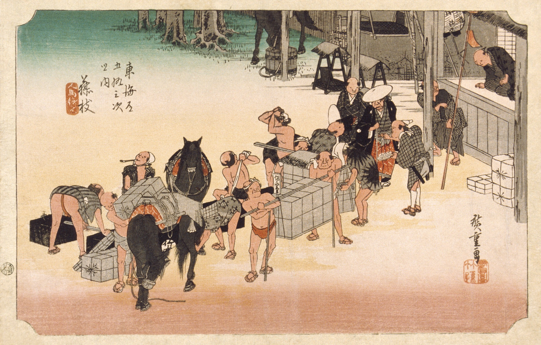 Japan, circa 1833-1834 Alternate Title: Fujieda, jinba tsugitate Series: Fifty-three Stations of the Tokaido, Number 23 Prints; woodcuts Color woodblock print Gift of Carl Holmes (M.71.100.26) Japanese Art